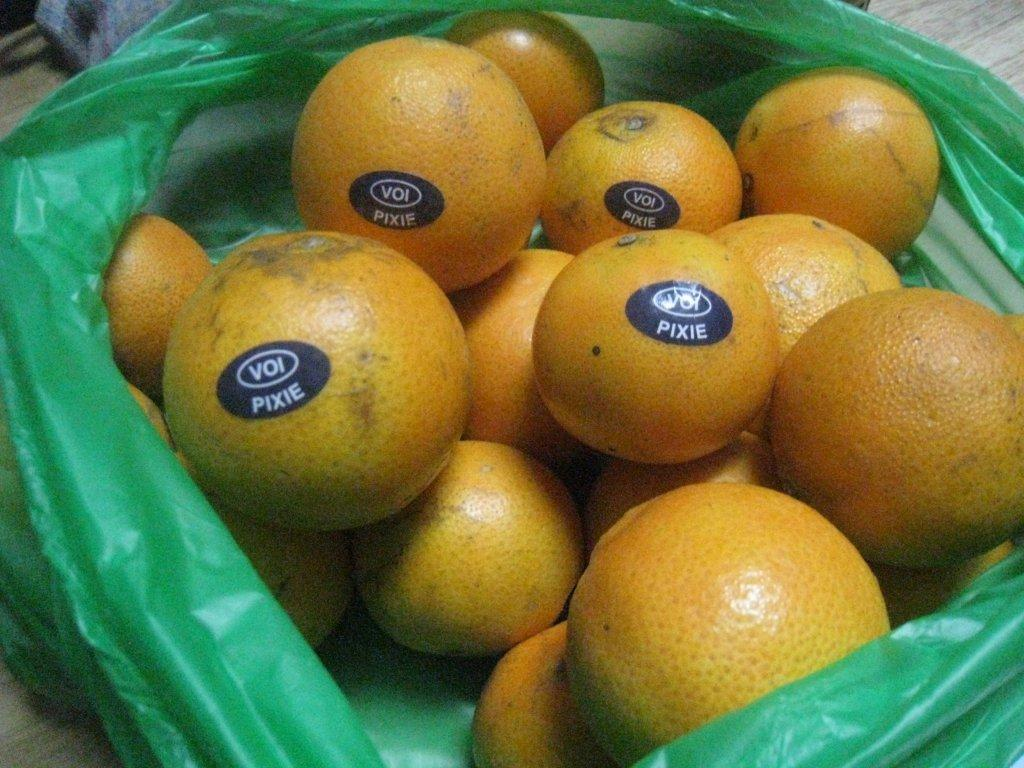 Oranges from Voi.